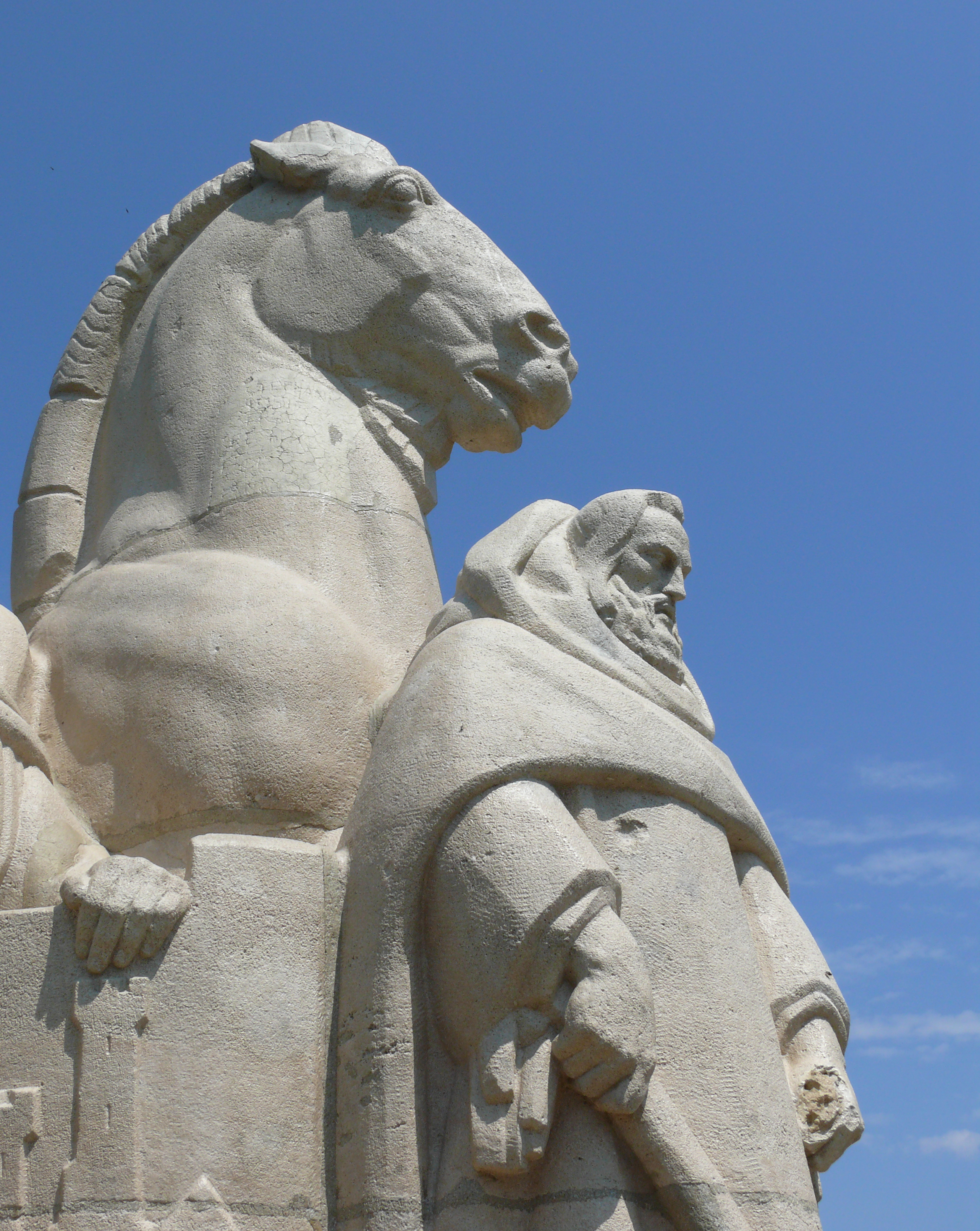 Monument for the Four Sons of Aymon and Steed Bayard at Bogny sur Meuse.